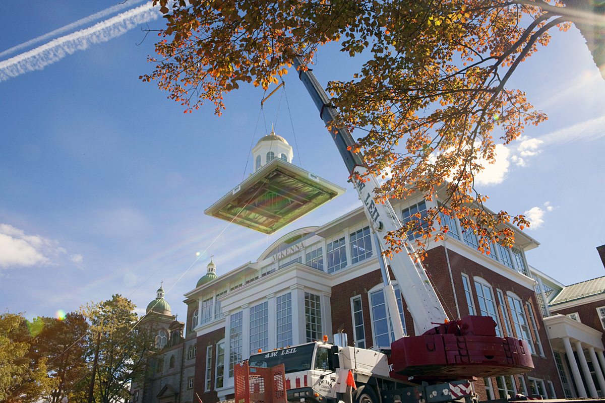 A 120-ton crane lifts a site-fabricated 45,000-pound cupola 80 feet into the air onto the roof of the Gerald Schwartz School of Business at St. Francis Xavier University. The cupola features a gold dome, LED lighting and exterior PVC construction materials selected for durability and longevity. The project, which took second place in the CDBI’s 9th annual awards of excellence, included construction of the Frank McKenna Centre for Leadership.